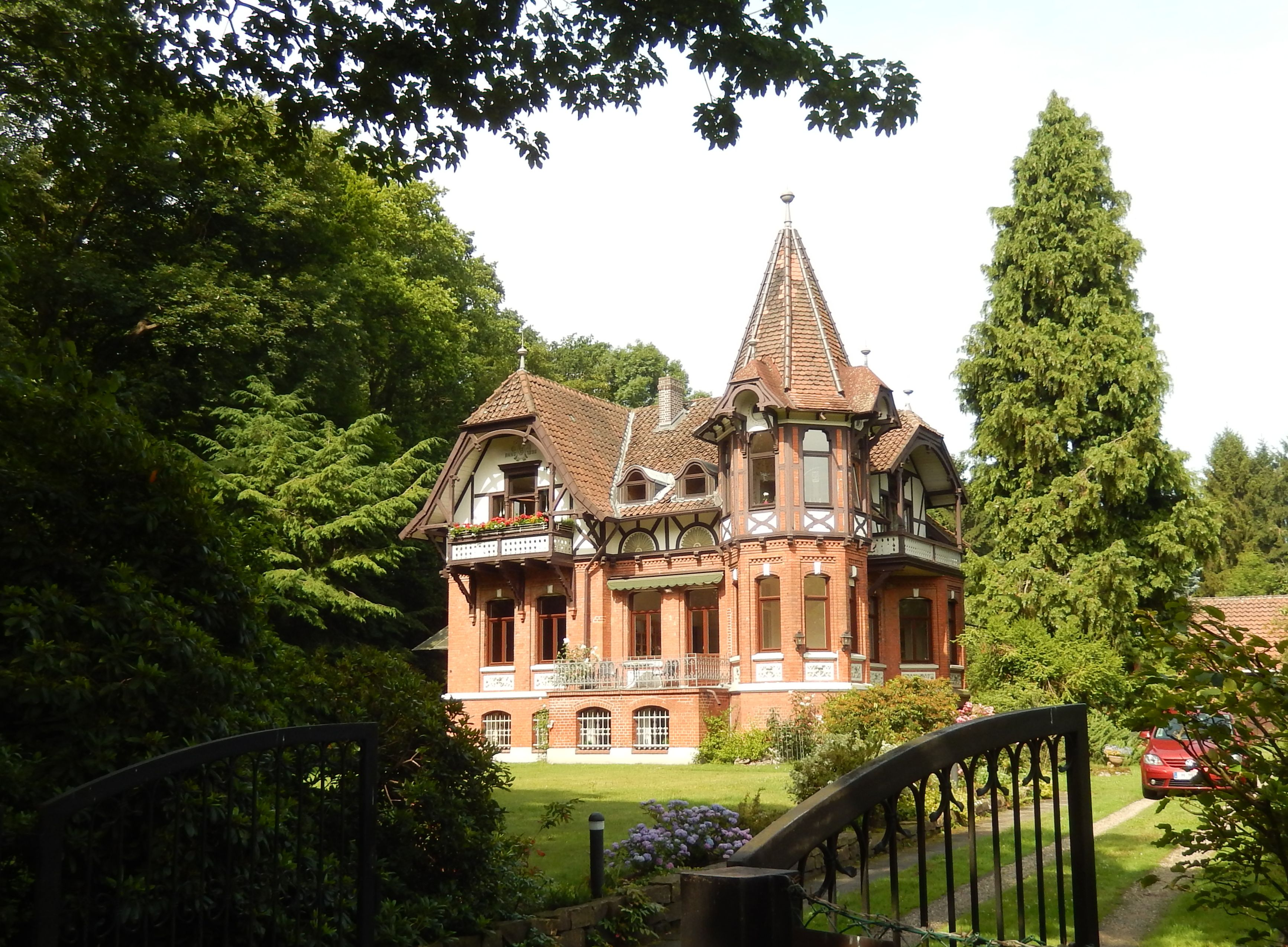 Residential house in Hannover, Germany.